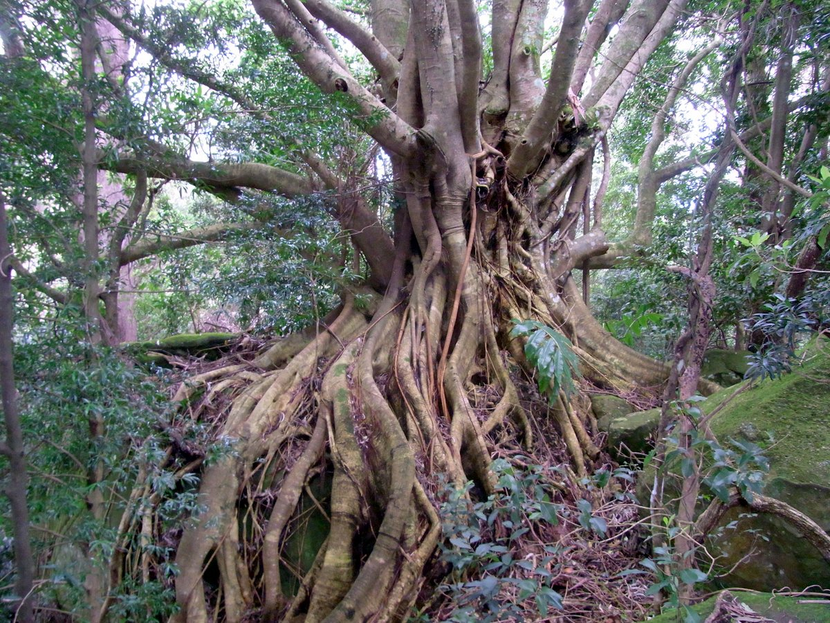 Deciduous Fig, Foxground NSW Australia, Ficus superba var. henneana growing on a volcanic rock, possibly Trachyandesite